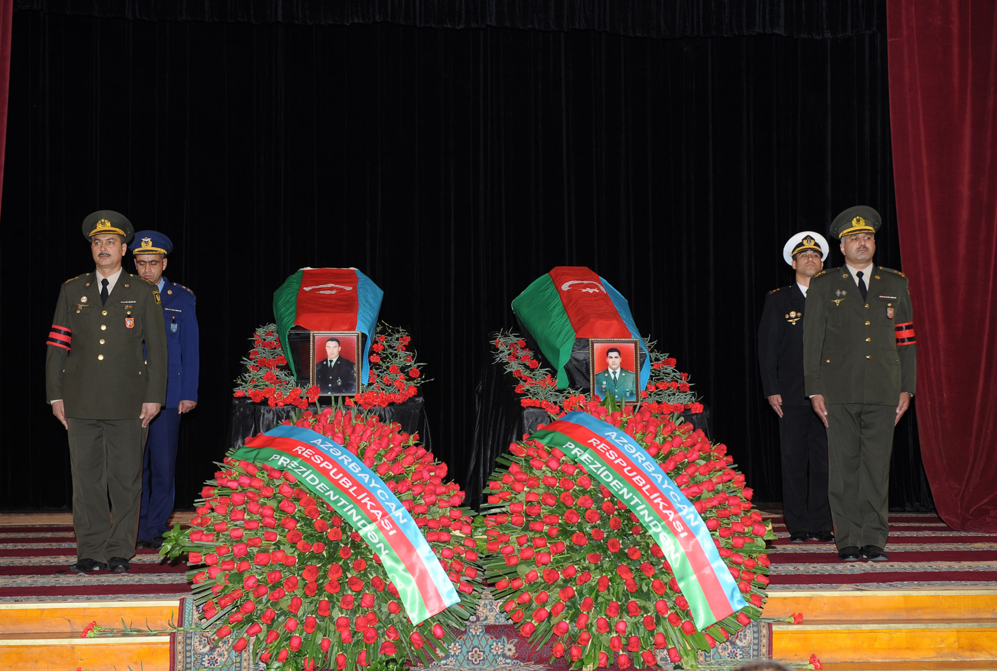 Farewell ceremony for Mubariz Ibrahimov and Farid Ahmadov